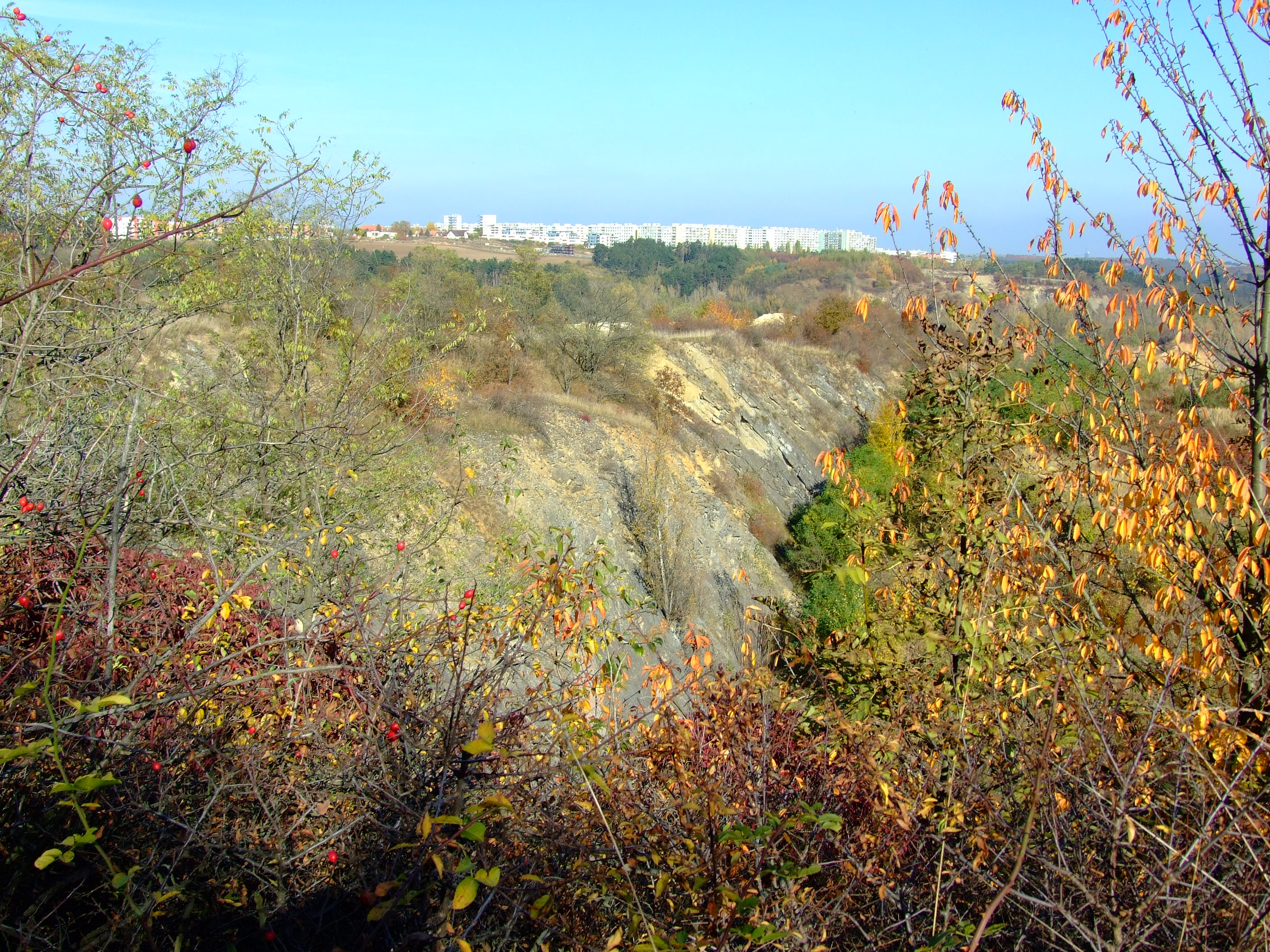 Prague-Řeporyje, the Czech Republic. Near Požáry Quarry.